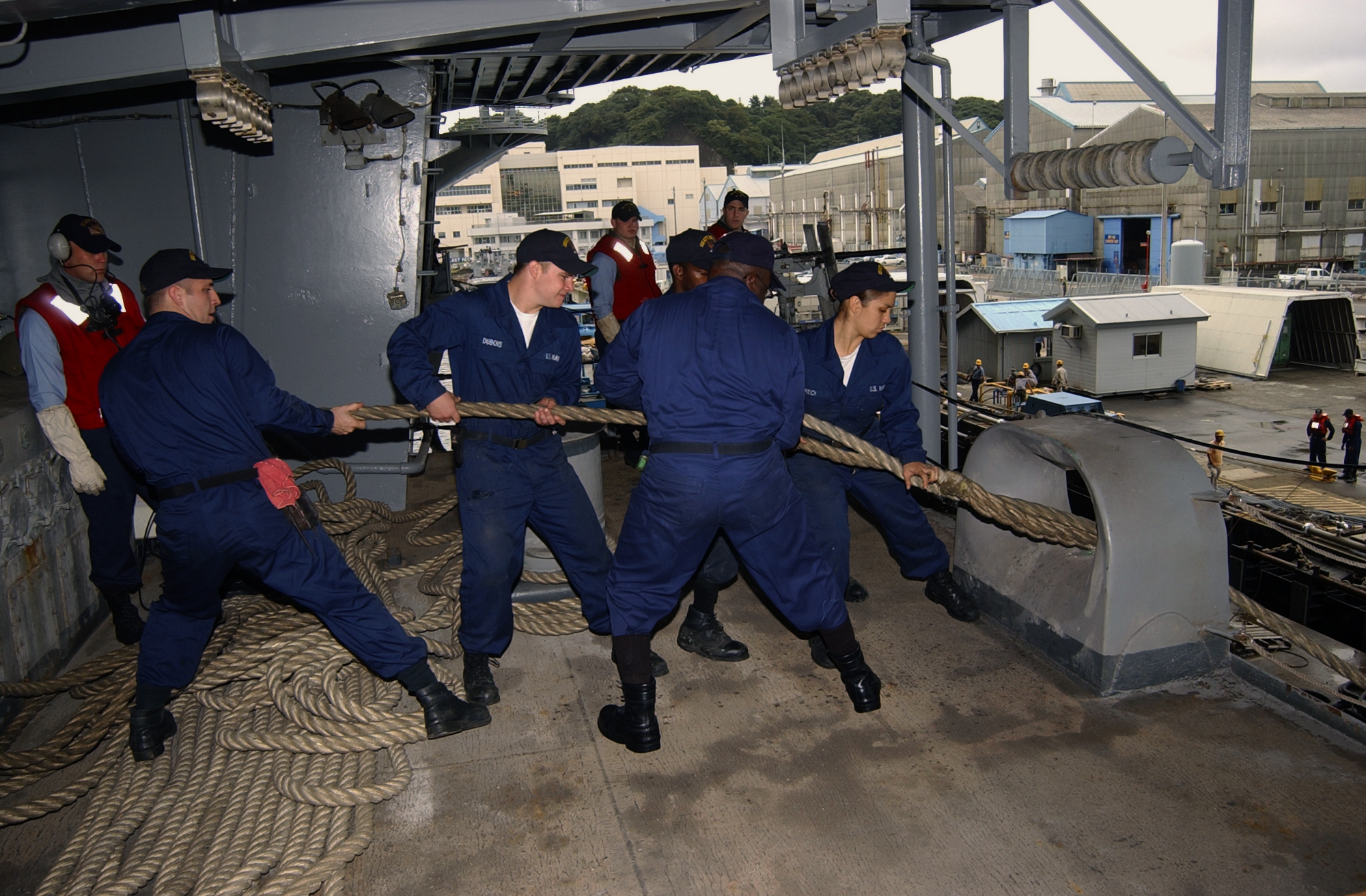 Aboard USS Kitty Hawk (CV 63) Oct. 13, 2003 -- Boatswain’s Mates from Deck Department’s 3rd division heave in mooring lines during USS Kitty Hawk’s (CV 63) departure for sea trials. The aircraft carrier recently completed an extensive five-month maintenance period in Yokosuka, Japan, following her deployment in support of Operation Iraqi Freedom. U.S. Navy photo by Photographer’s Mate 3rd Class Jason R. Williams. (RELEASED)